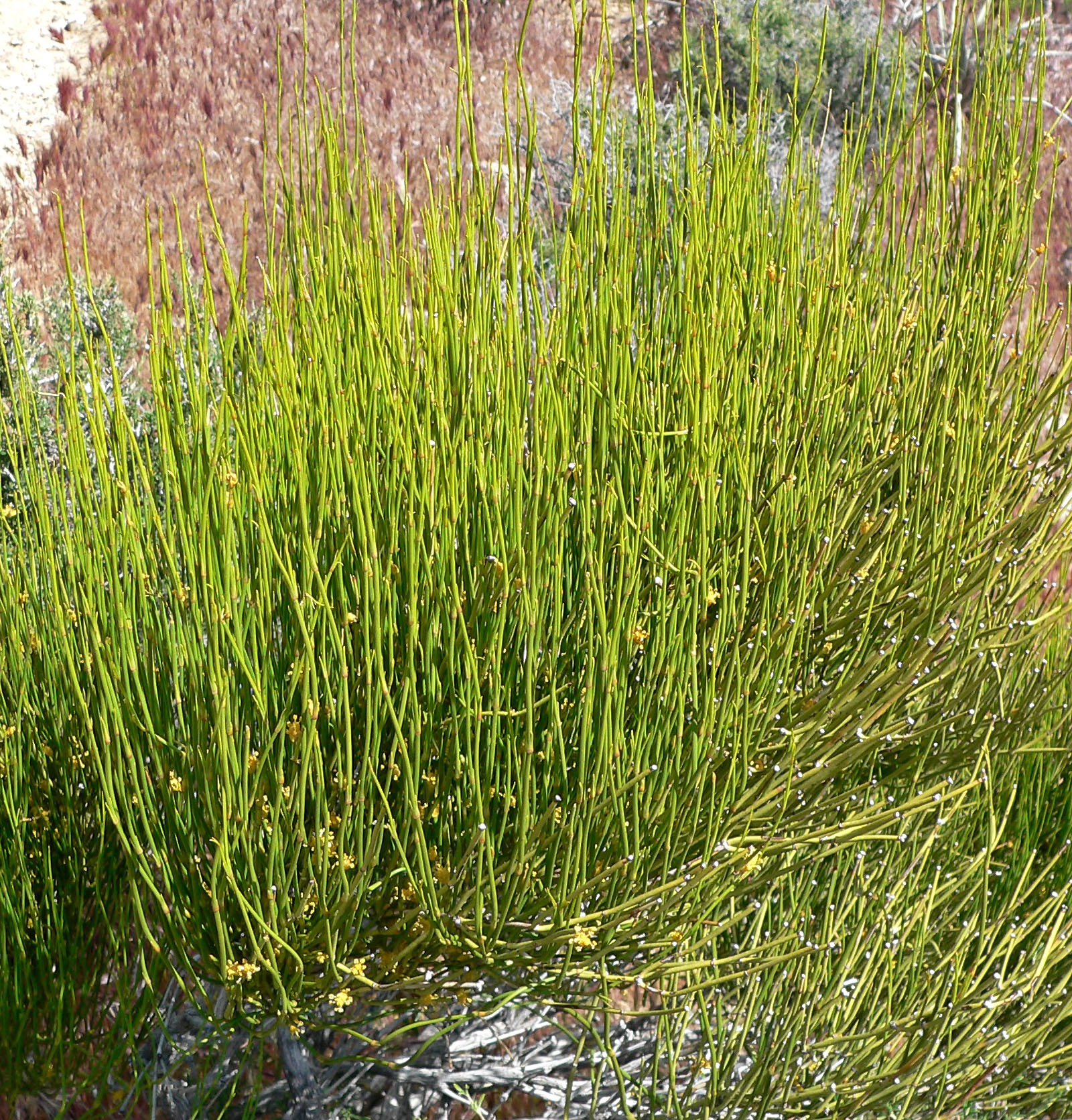 Photo of Ephedra viridis in Red Rock Canyon, Nevada